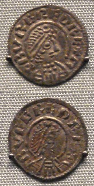 Burgred_king_of_Mercia_852_874